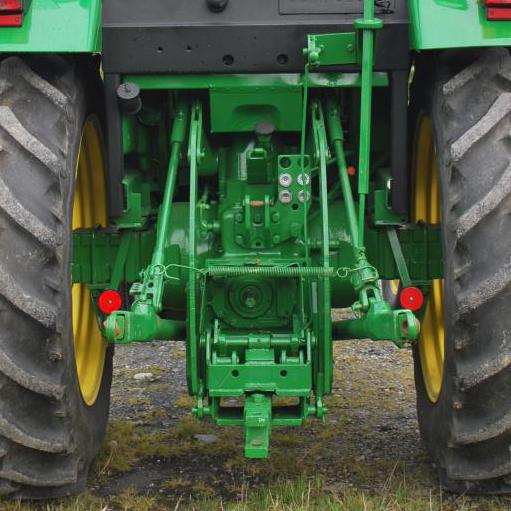 John Deere 3050, rear view showing three-point linkage, PTO and swinging drawbar